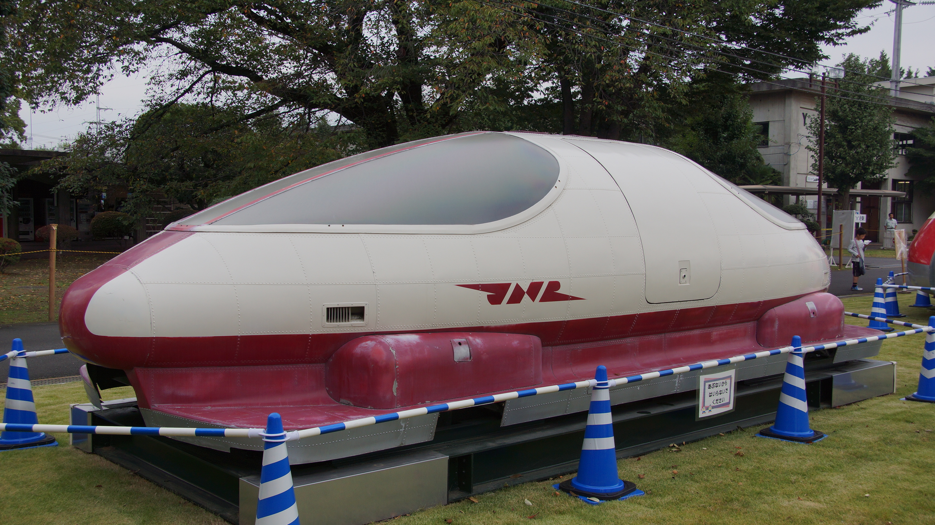 Experimental maglev car ML100 preserved at the RTRI facility in Kokubunji, Tokyo